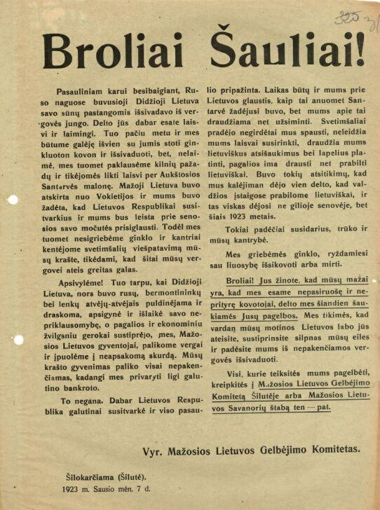 Proclamation Broliai Šiauliai! (official pretext for the Klaipėda Revolt)